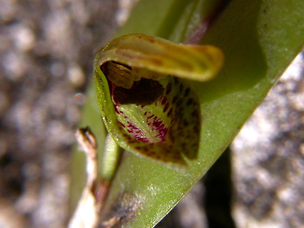 Photos by Americo Docha Neto & Dalton Holland Baptista for Orchidstudium